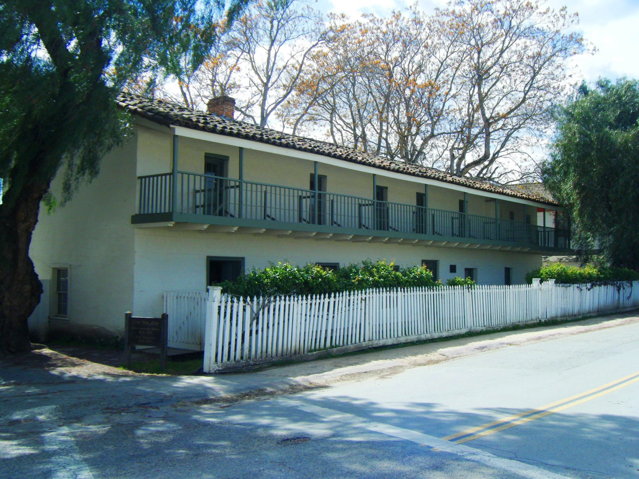 Jose Castro House